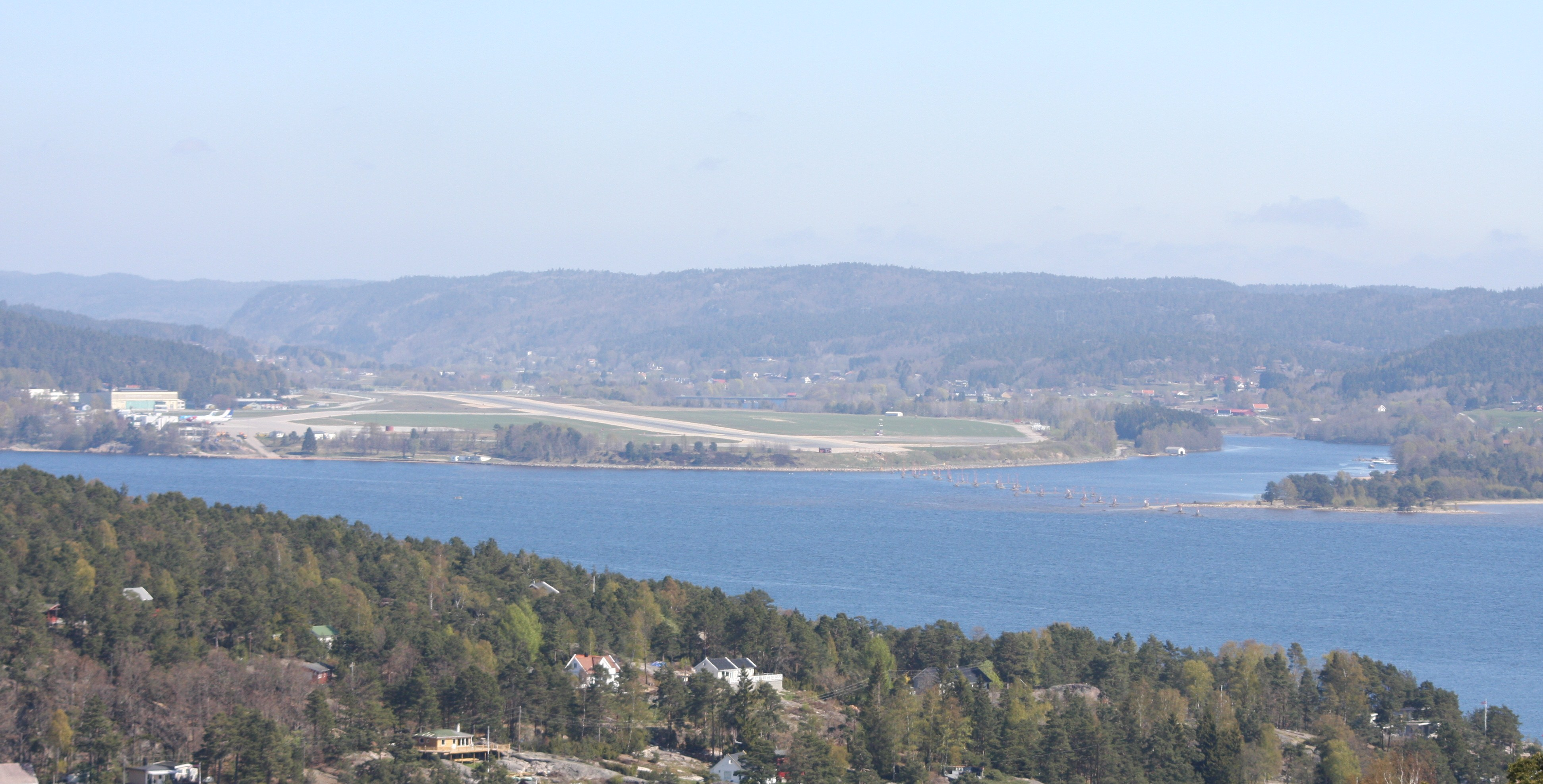 Tovdalselva, a river ending in the Topdals Fiord, Kristiansand, Norway.